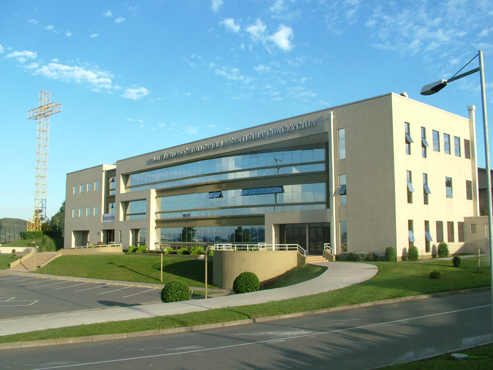 San_andres_ucsc.JPG